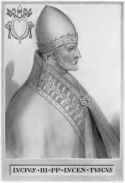 This illustration is from The Lives and Times of the Popes by Chevalier Artaud de Montor, New York: The Catholic Publication Society of America, 1911. It was originally published in 1842.